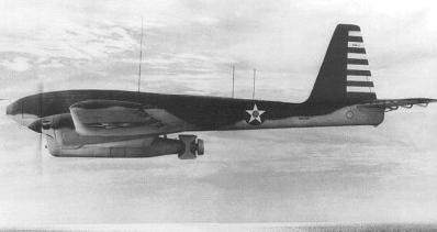 Interstate TDR-1 assault drone in flight, carrying an aerial torpedo.